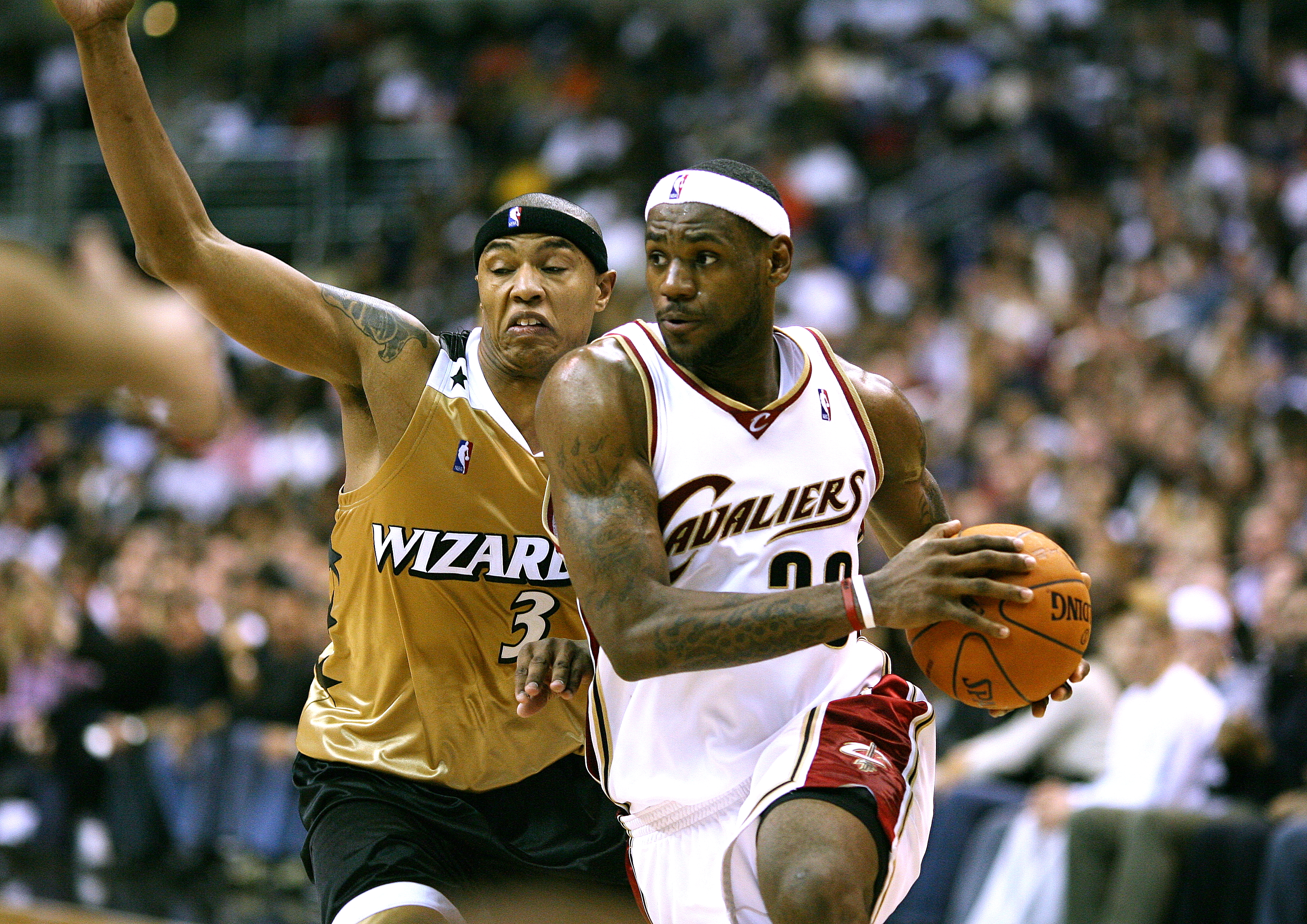 LeBron James playing with the Cleveland Cavaliers